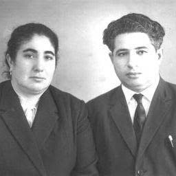 A Mountain Jewish poet Sergey Izgiyayev with his wife Sarah.